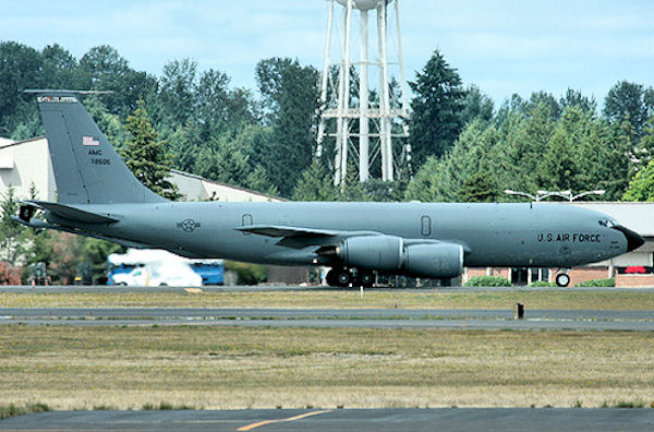 KC-135R at Grand Grand Forks AFB, North Dakota